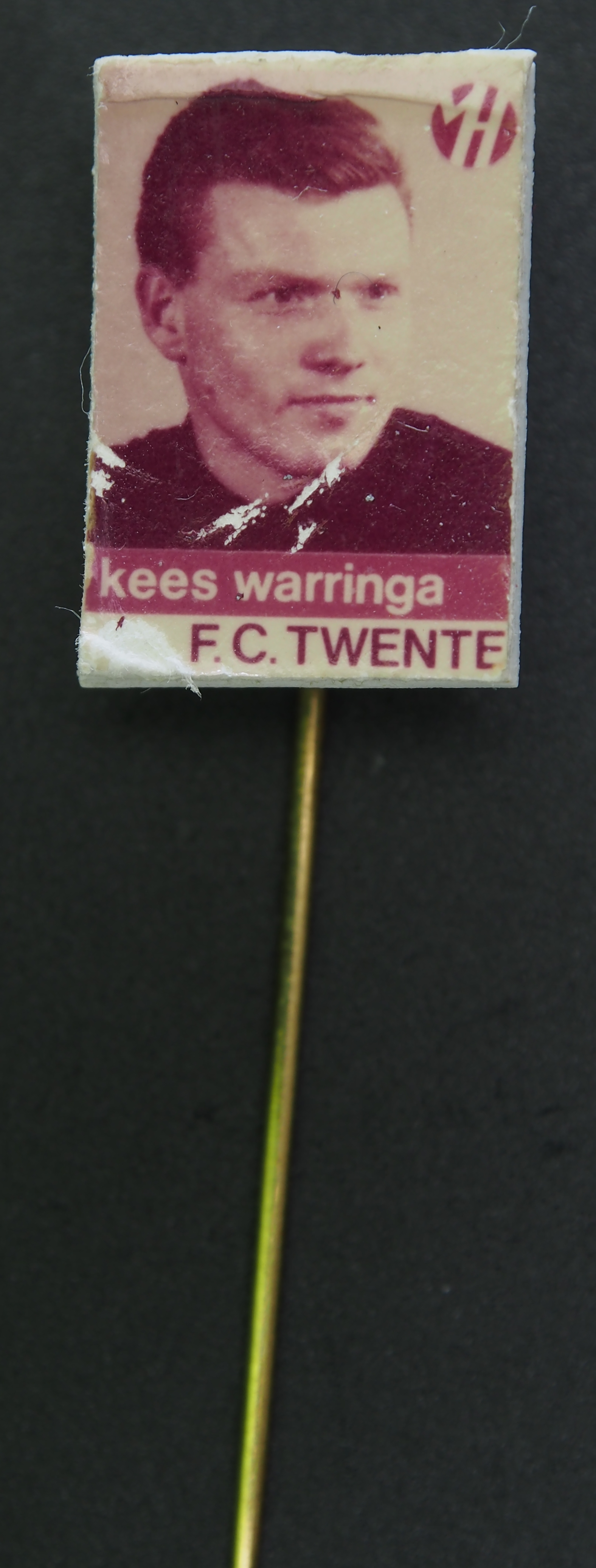 Advertising pin of an old (Dutch) product or brand.